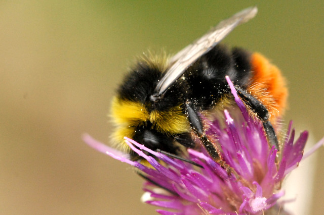 Bombus lapidarius from Commanster, Belgian High Ardennes .